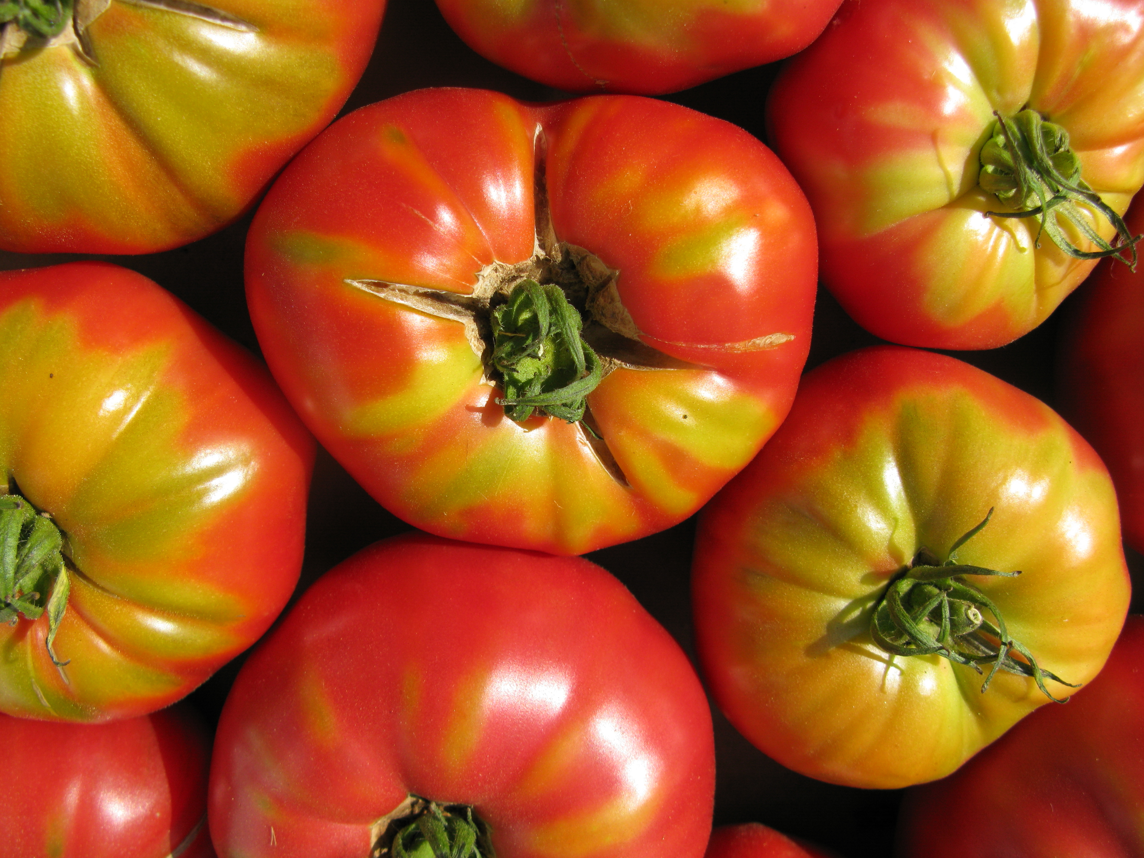 End of Summer Tomatoes